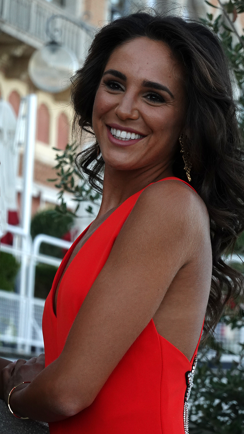 Chiara Carcano